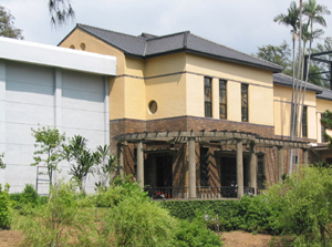 Glass Museum of Hsinchu City